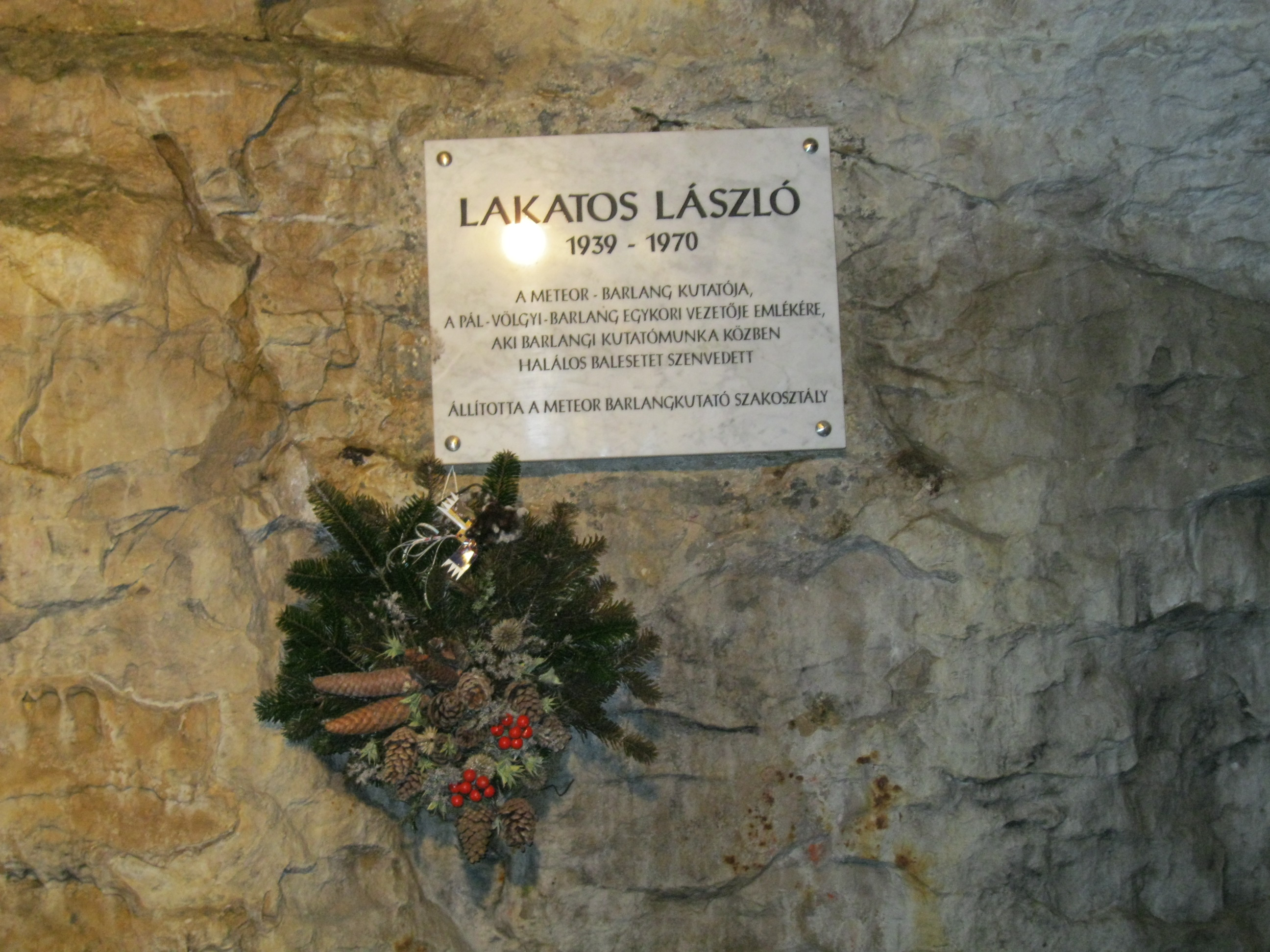 Memorial tablet of Lakatos László in the Pál-völgy Cave